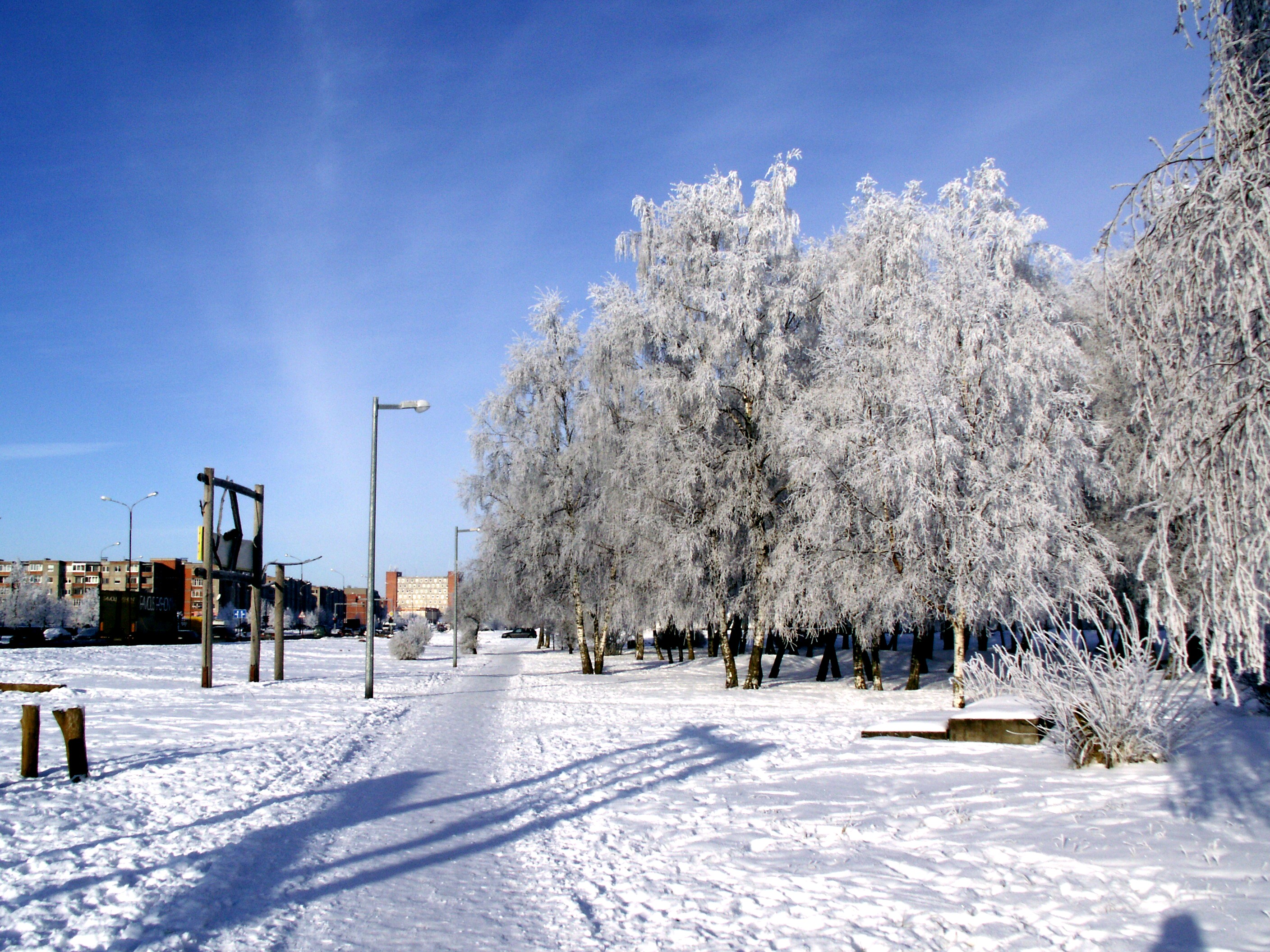 Beržynėlis park in Šiauliai, Lithuania